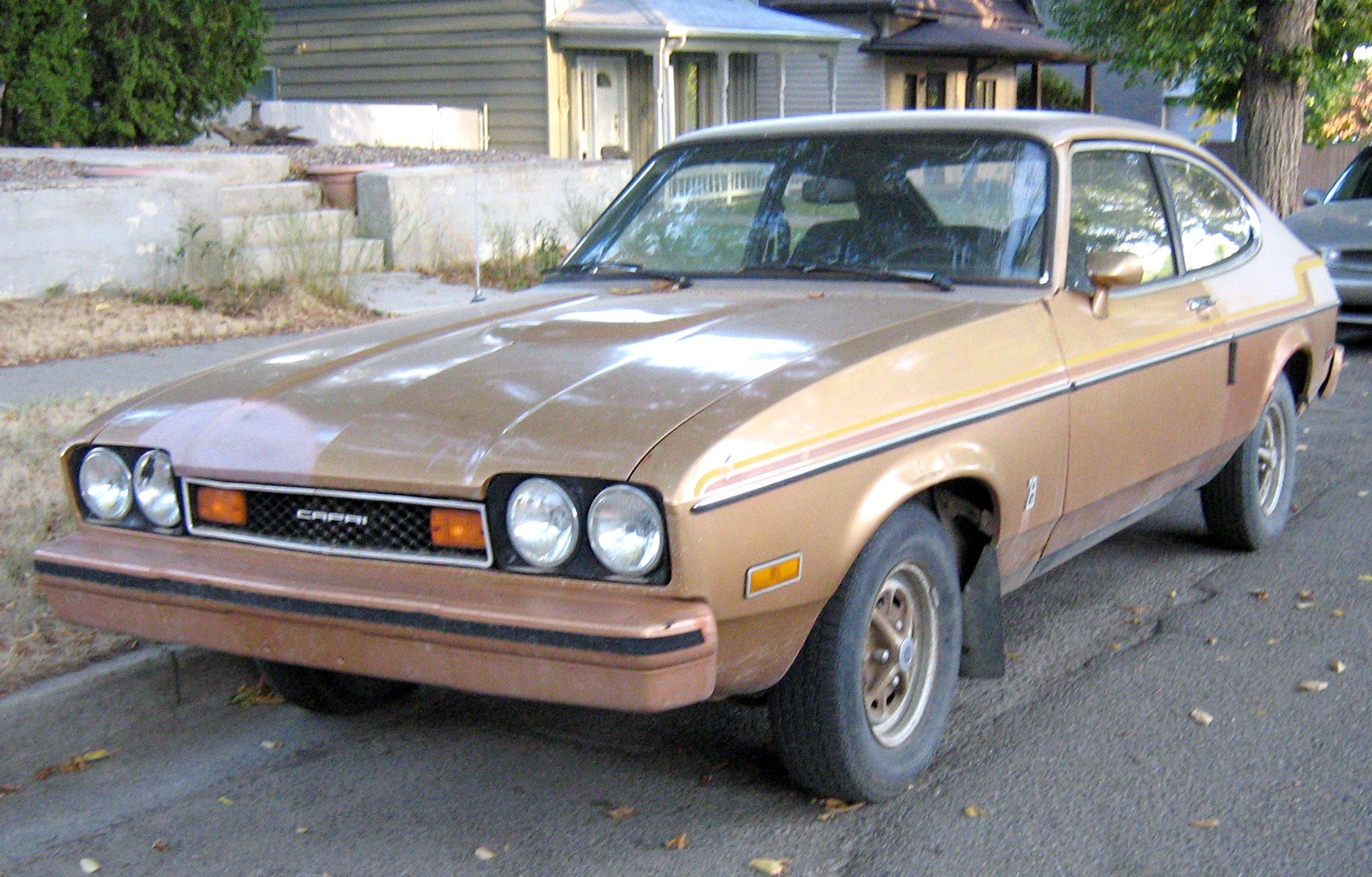 Rare sight these days. This one had a 2.3L engine and four speed manual.